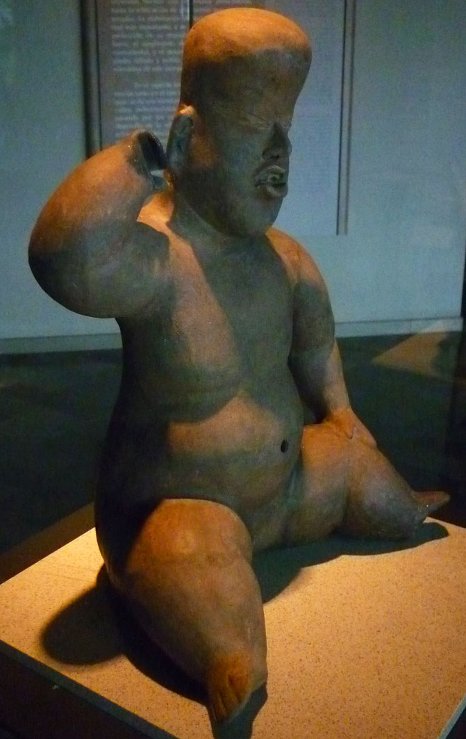 Olmec "Hollow baby" exhibited at the Museo Nacional de Antropología e Historia, México